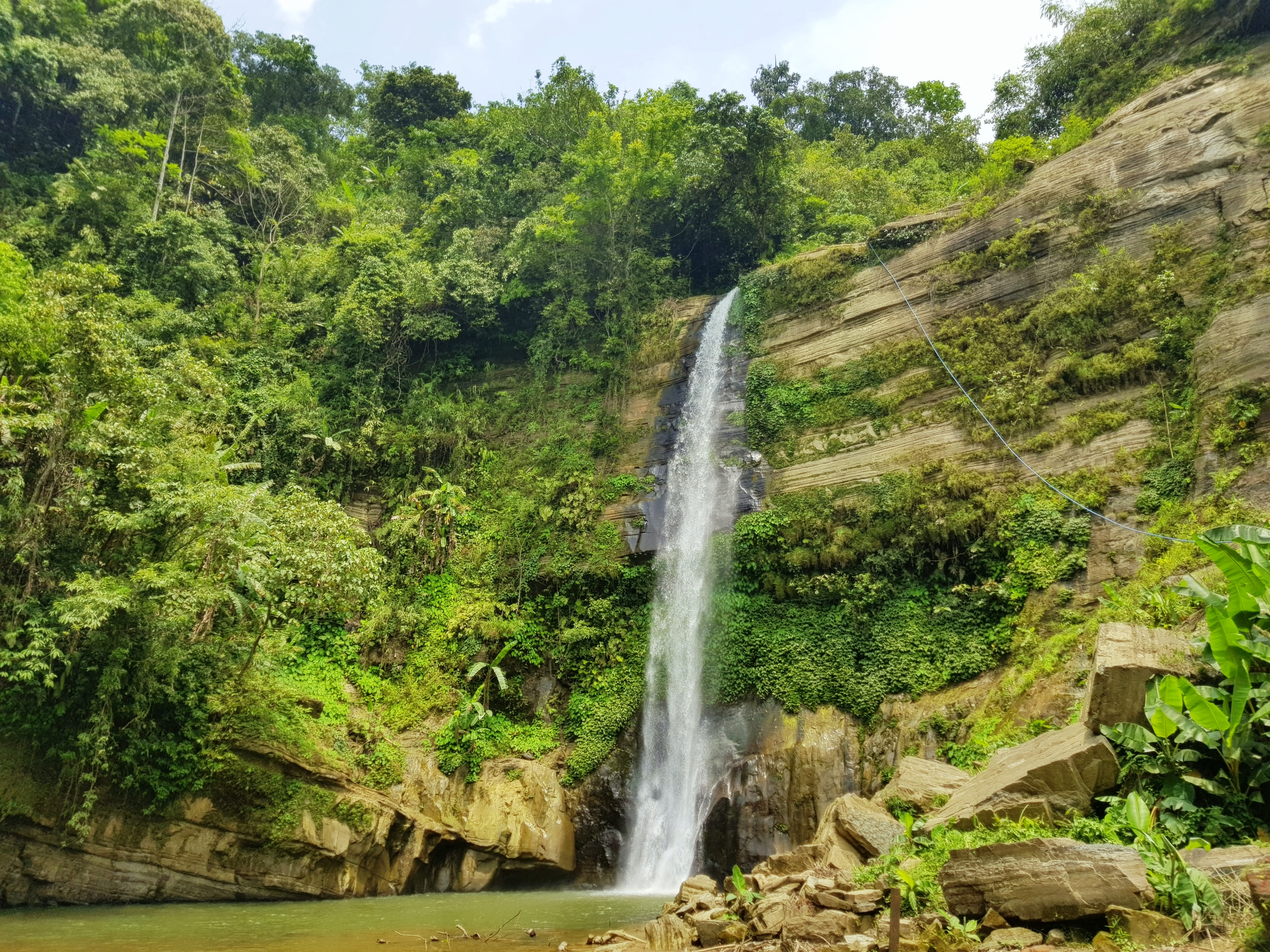 মাধবকুন্ড জলপ্রপাত সিলেট বিভাগের মৌলভীবাজার জেলার বড়লেখায় অবস্থিত